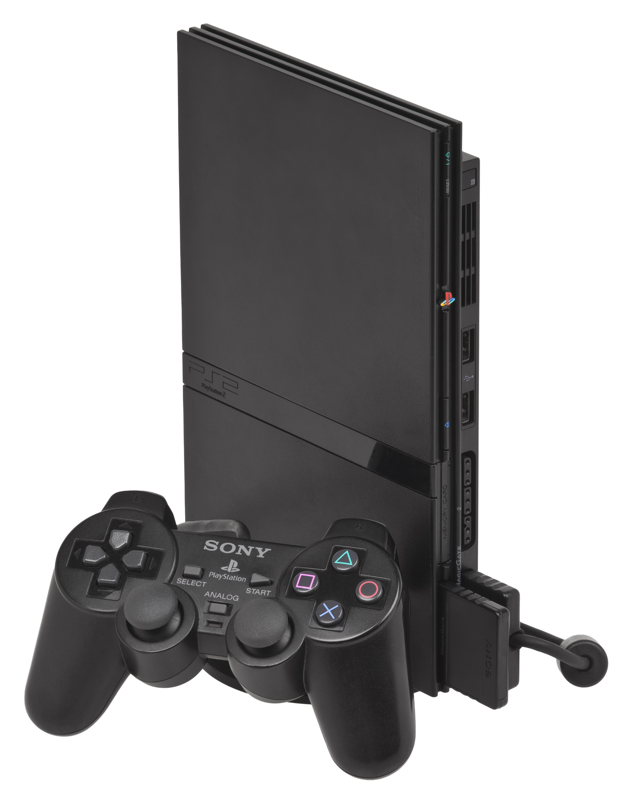 A Sony PlayStation 2, model SCPH-70001. Shown with 8MB memory card and DualShock 2 controller. This is the JPG version.